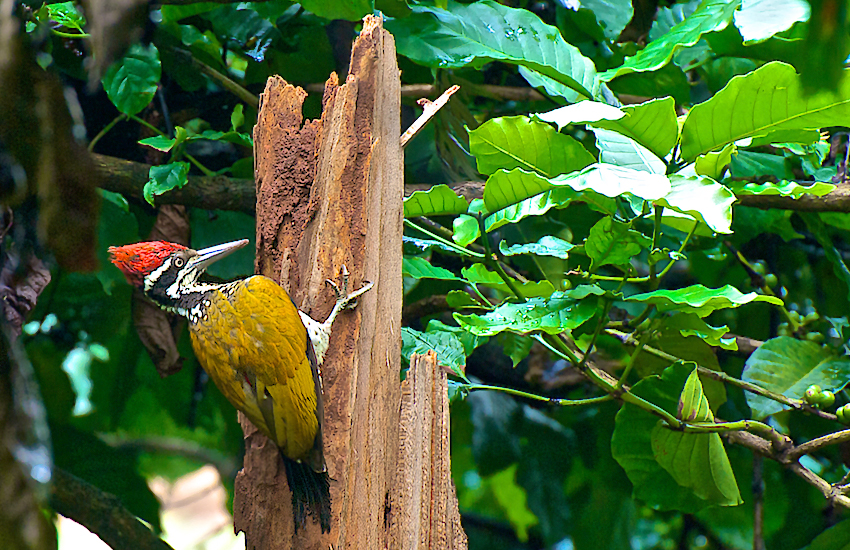 Greater Flameback Chrysocolaptes guttacristatus, SW India